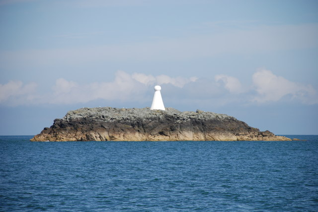 Maen y Bugael (West Mouse, Wales)